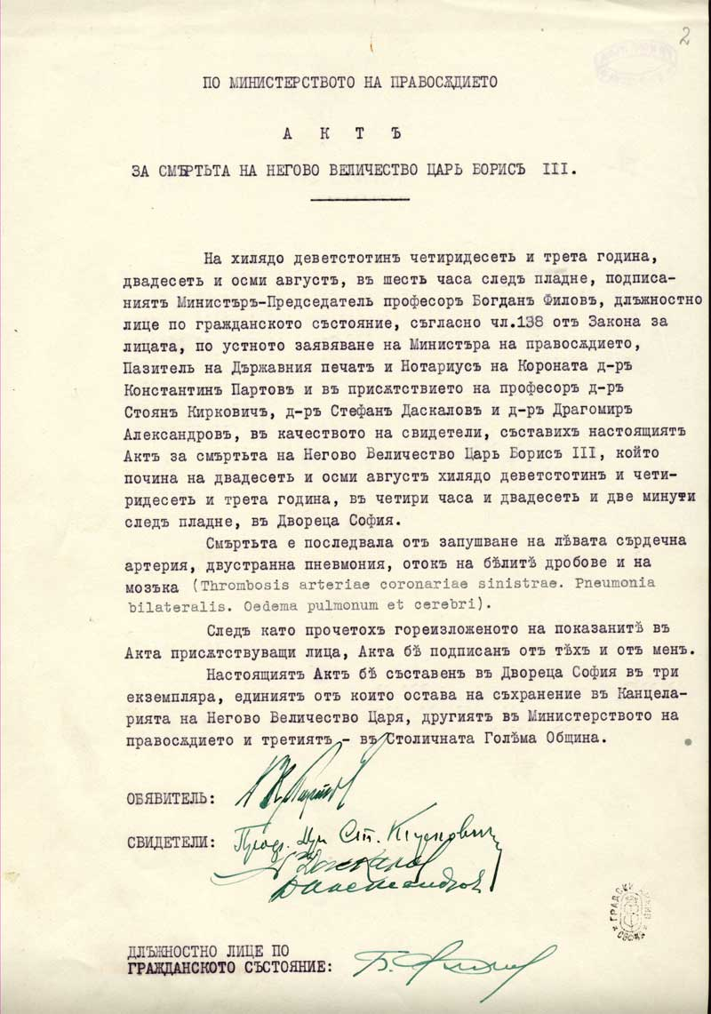 Death Certificate of Boris III of Bulgaria.